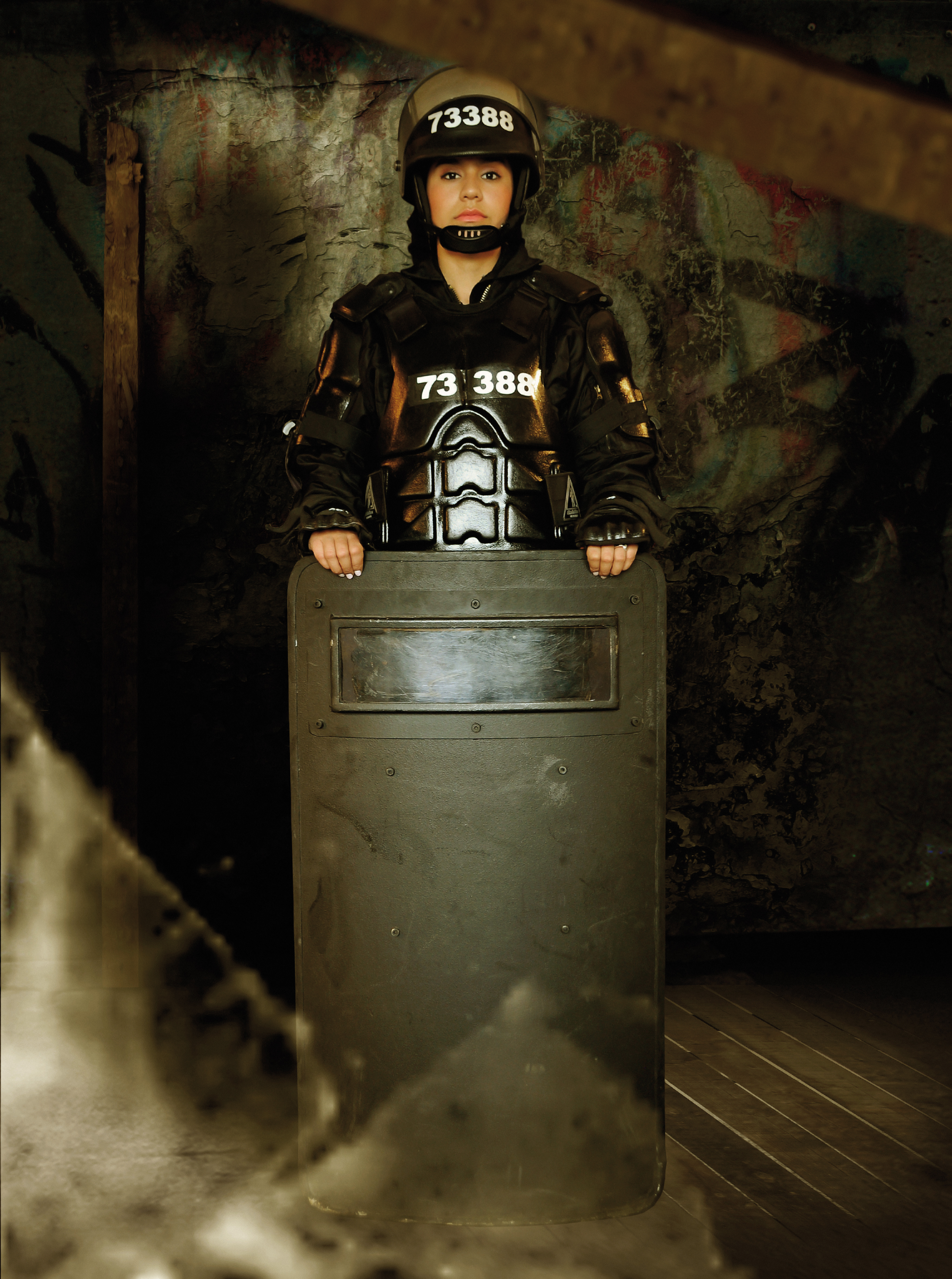 Dios y Patria (God and Nation) is a collection of photographs made entirely by Colombian artist and photographer Germán Gaviria Mesa in homage of the forces of the National Police of Colombia and in memory of our nation's military heroes who have given their lives to working to serve as policemen and women of our beloved Colombia. Gaviria blends traditional photographic technique with the art of portraiture to produce a startling collection of beautiful and unrivalled images that paint the values, honour, sacrifice and submission that members of the Colombian police force embody in their service to our nation.